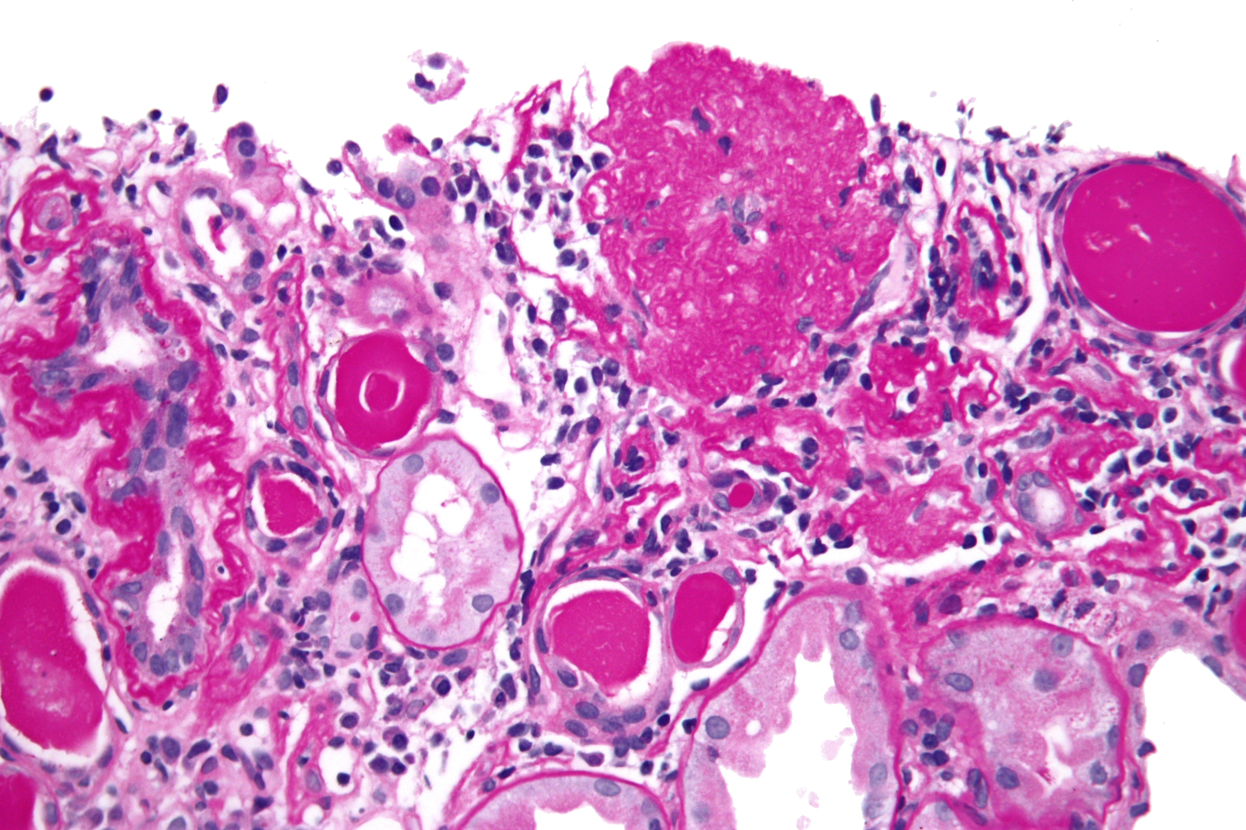 Very high magnification micrograph of collapsing glomerulopathy. PAS stain. Collapsing glomerulopathy is considered to be a subtype of focal segmental glomerulosclerosis (FSGS).[1] It generally has a poor prognosis, when compared to other types of FSGS. It is as associated with viral infections (HIV, parvovirus B19) and toxins. Related images Intermed. mag. High mag. Very high mag. References ↑ (Mar 2003). "Collapsing glomerulopathy.". Semin Nephrol 23 (2): 209-18.